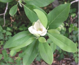 Very small photograph of a 'Sweetbay' - magnolia family